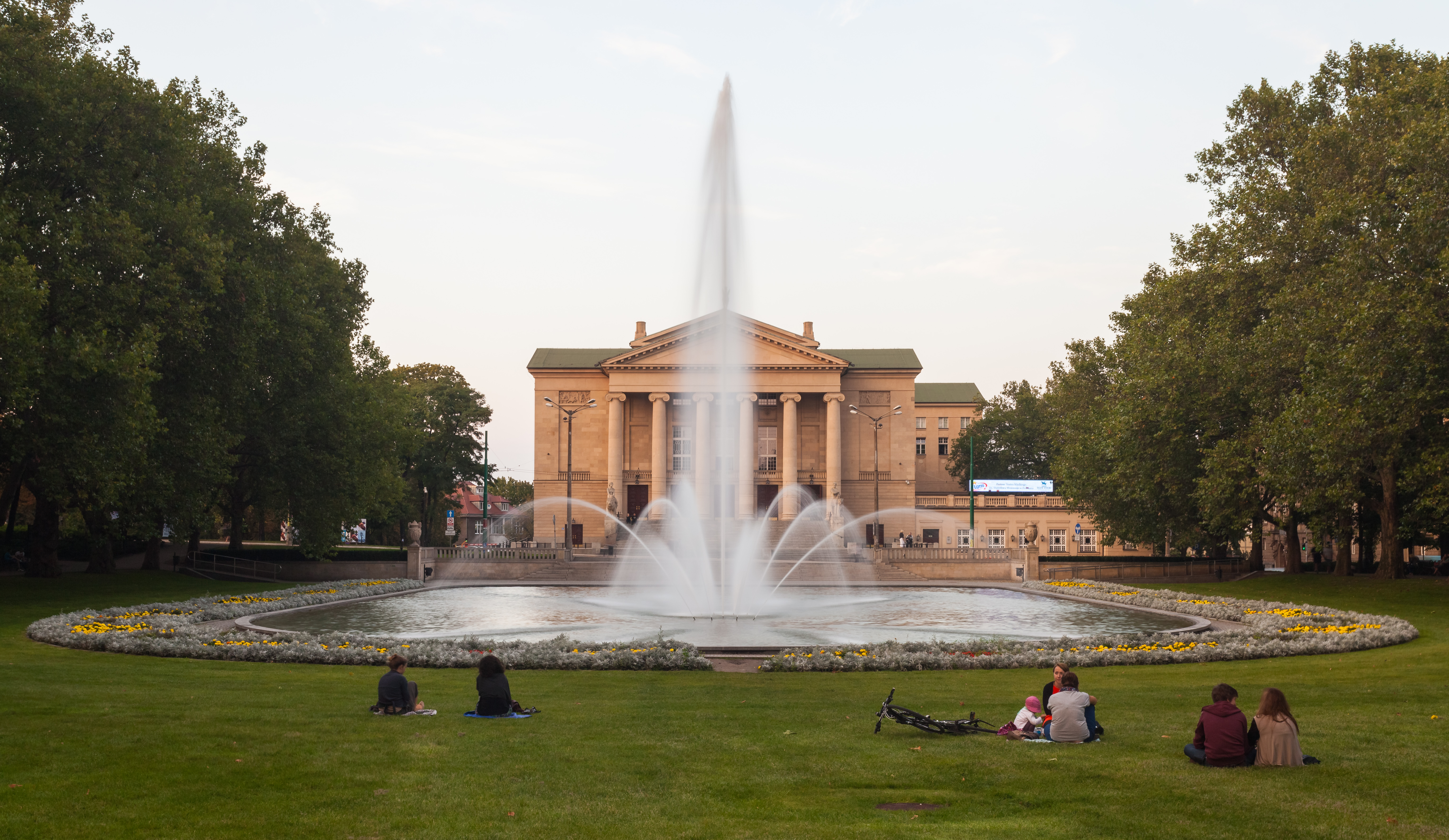 Teatr Wielki, Poznań, Poland